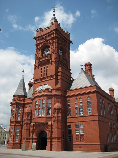 The Pierhead Building, Cardiff Bay As part of the redevelopment of Cardiff Bay the Pierhead Building was beautifully restored and now sits centre stage overlooking the bay. The building which is grade 1 listed was designed by William Frame and was built in 1897.